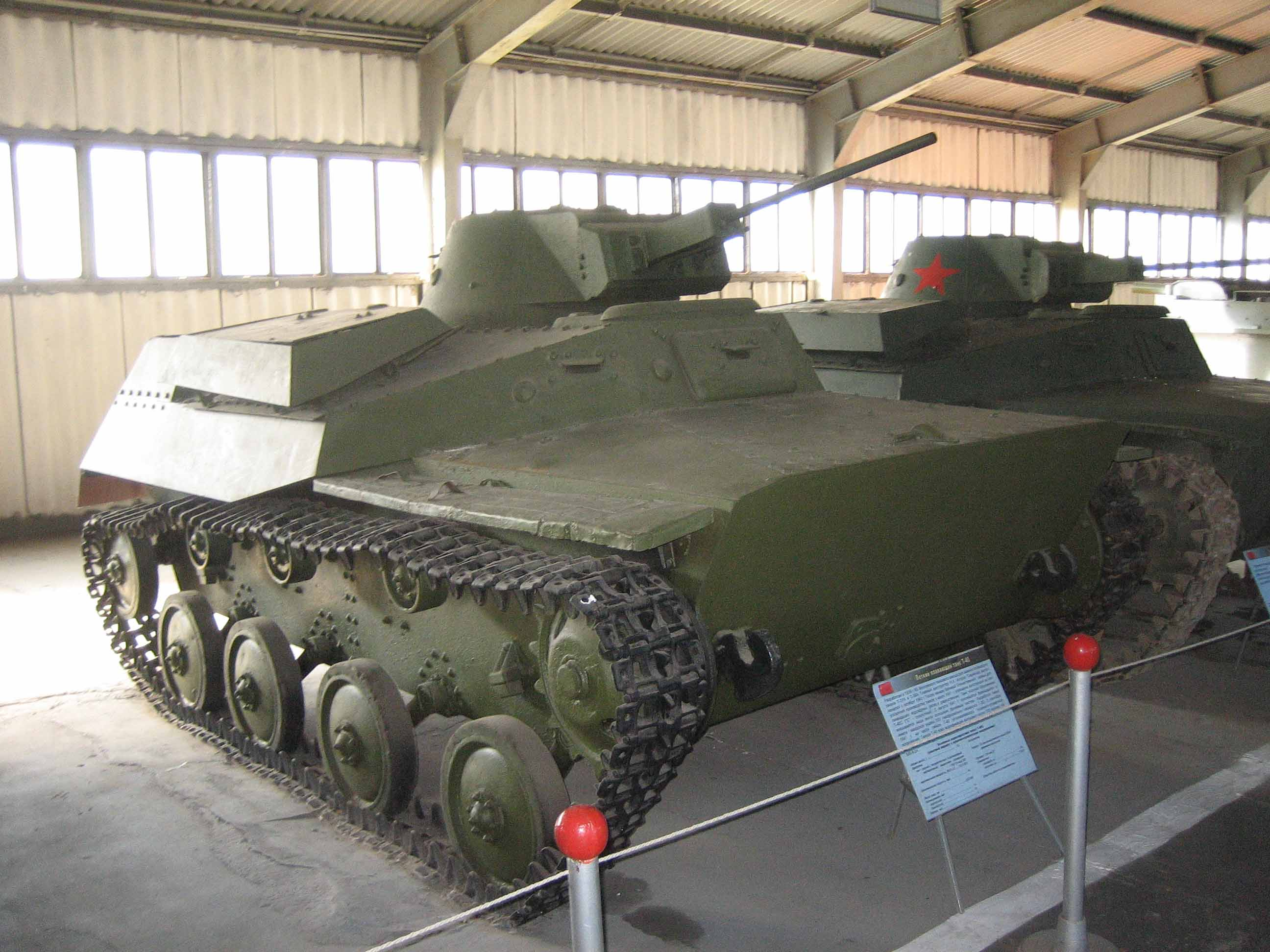 Soviet light infantry tank T-40, displayed in Kubinka Tank Museum. Photo taken on September 23, 2006. Source: Photo by me, User:Saiga20K.